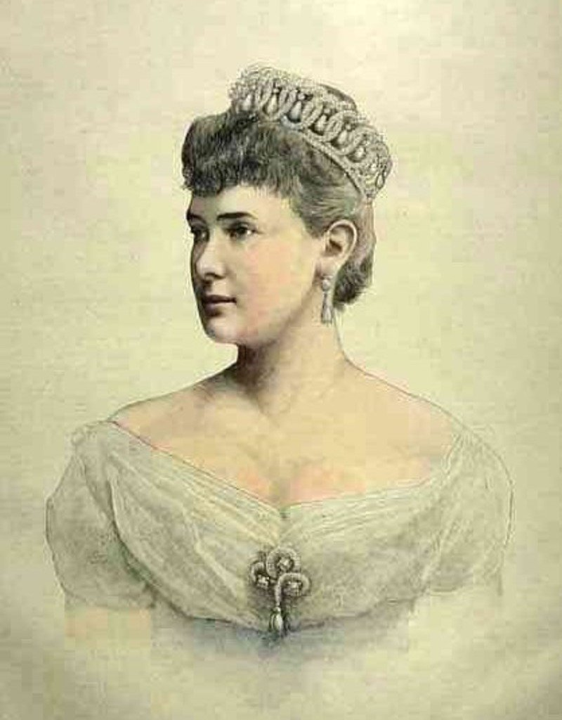 Maria Pavlovna of Russia